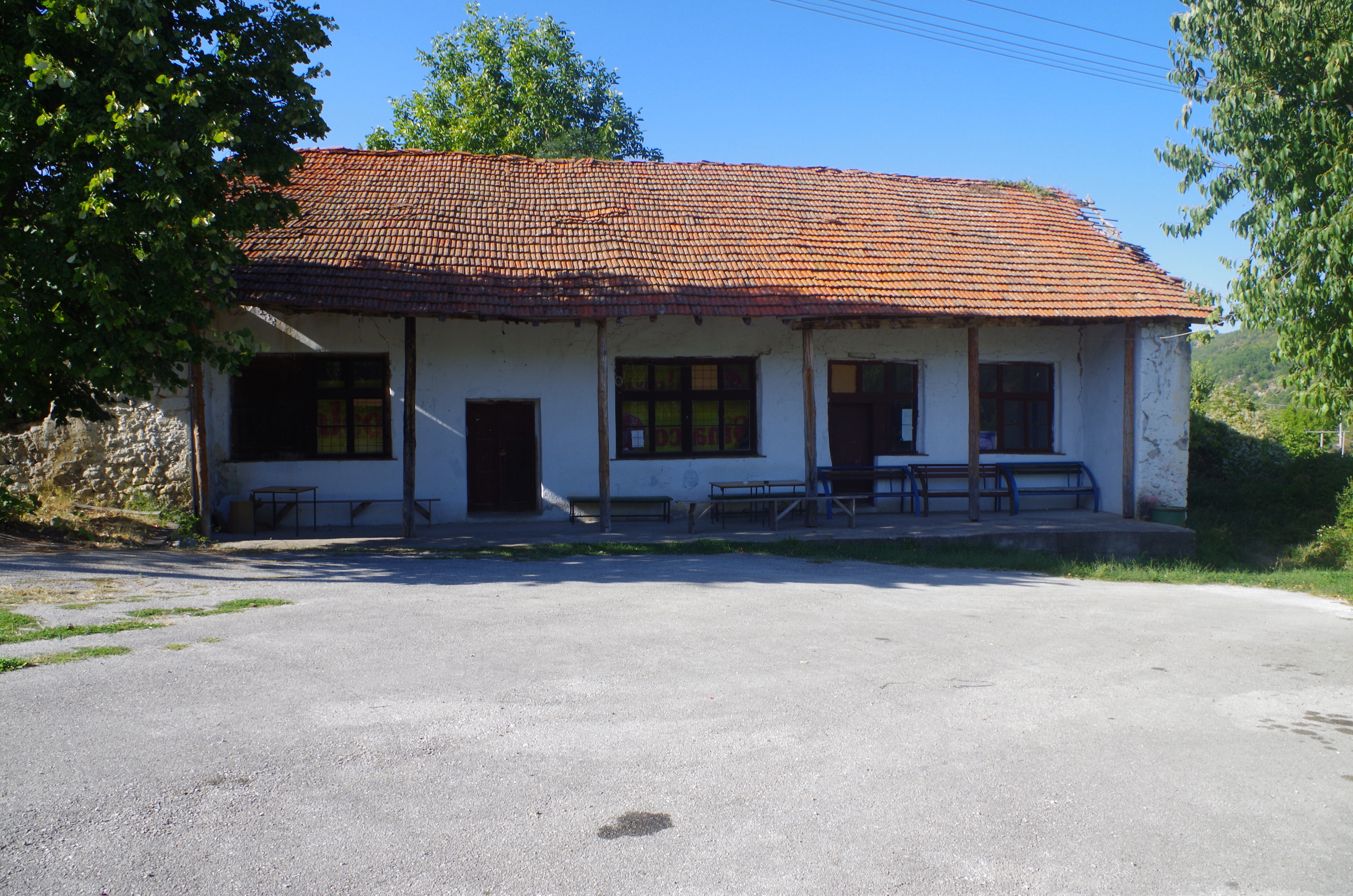 Building in the village of Bohula